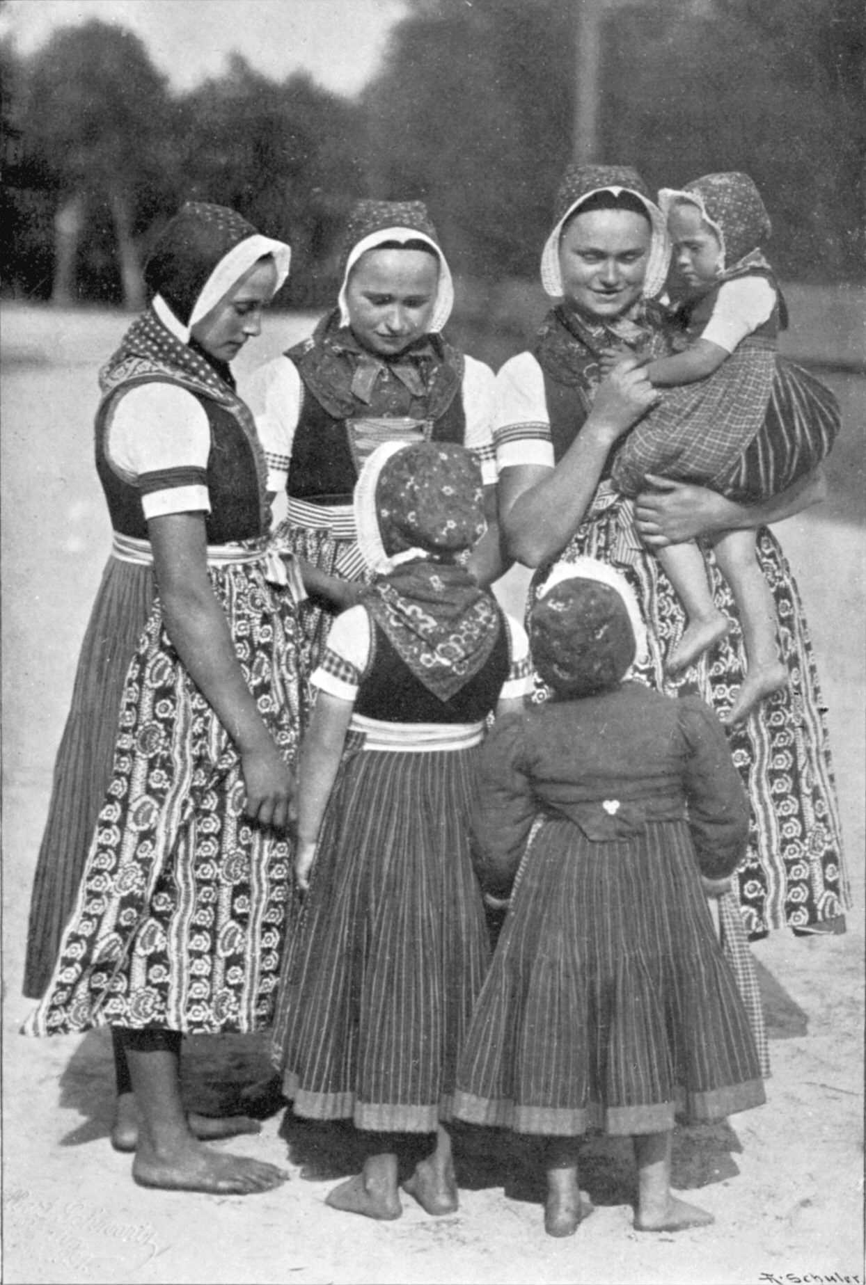 Sorbian women and children in the Tracht of Schleife Hornjoserbsce: Žona, holcy a dźěći we wuchodźowansek drasće – módrcicowy muster »smugaty« abo »wužowy«